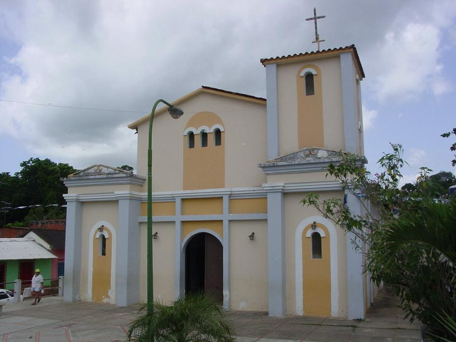 Church of Chuspa, Vargas, Venezuela. Picture donated by Guillermo Mantovani.